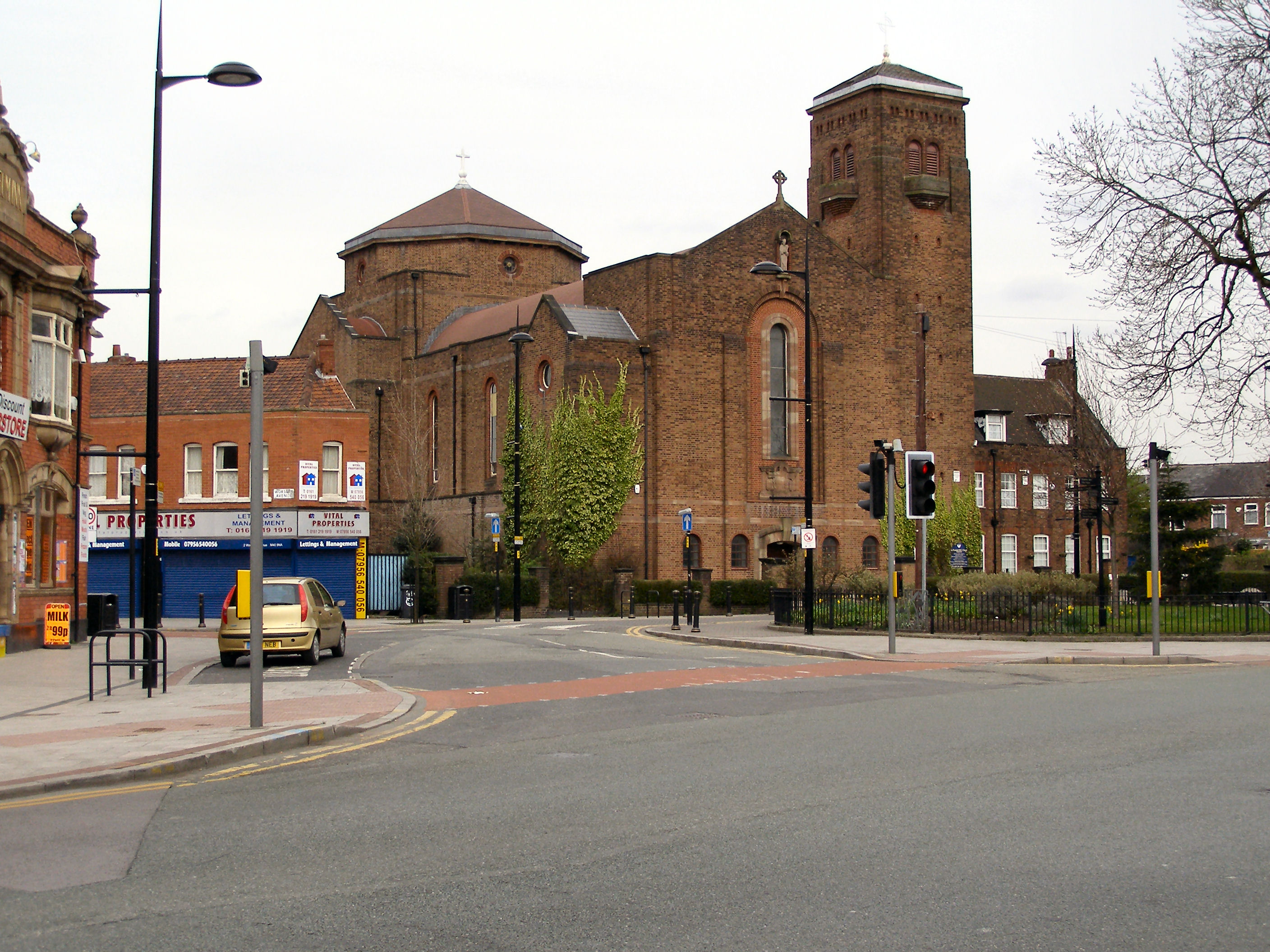 Photograph of St Dunstan's Church, Moston, Manchester, England